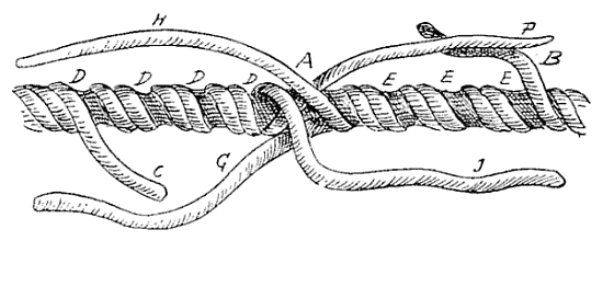 Splicing two ropes with the "Long Splice." To make this useful splice, unlay the ends of the rope about four times as much as for the short splice, or from four to five feet, unlay one strand in each rope for half as much again; place the middle strands together as at A, then the additional strands will appear as at B and C, and the spiral groove, left where they were unlaid, will appear as at D and E. Take off the two central strands, F and G, and lay them into the grooves, D, E, until they meet B and C, and be sure and keep them tightly twisted while so doing. Then take strands H and J, cut out half the yarns in each, make an overhand knot in them and tuck the ends under the next lays as in a short splice. Do the same with strands B, C and F, G; dividing, knotting, and sticking the divided strands in the same way. Finally stretch the rope tight, pull and pound and roll the splice until smooth and round, and trim off all loose ends close to the rope.